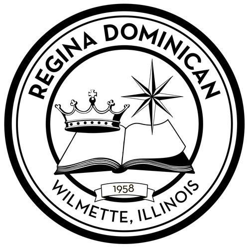 The Official Seal of Regina Dominican College Prep of Wilmette, Illinois.